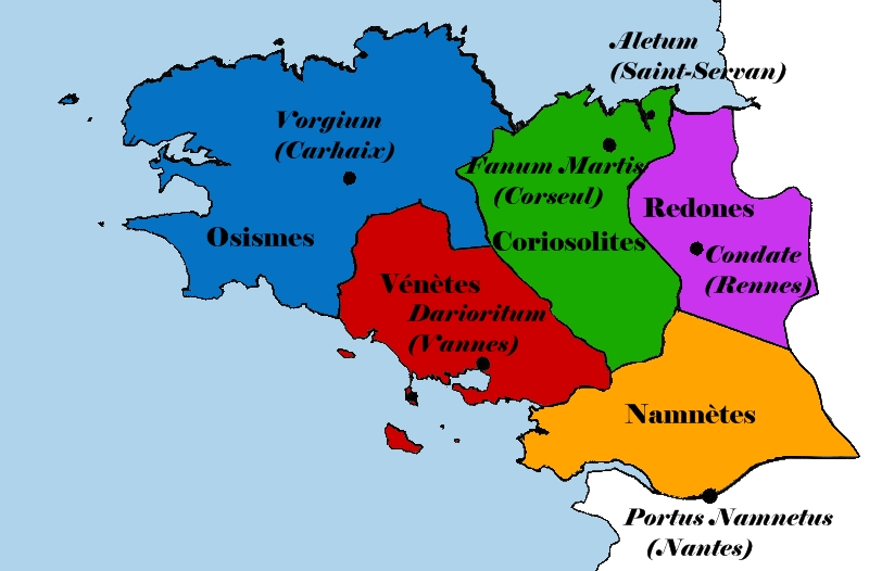 Map of Celtic tribes in Brittany.